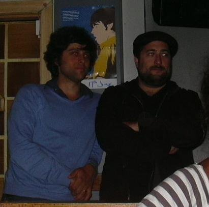 David Berkeley (left) and Jordan Katz at Bloc in Glasgow